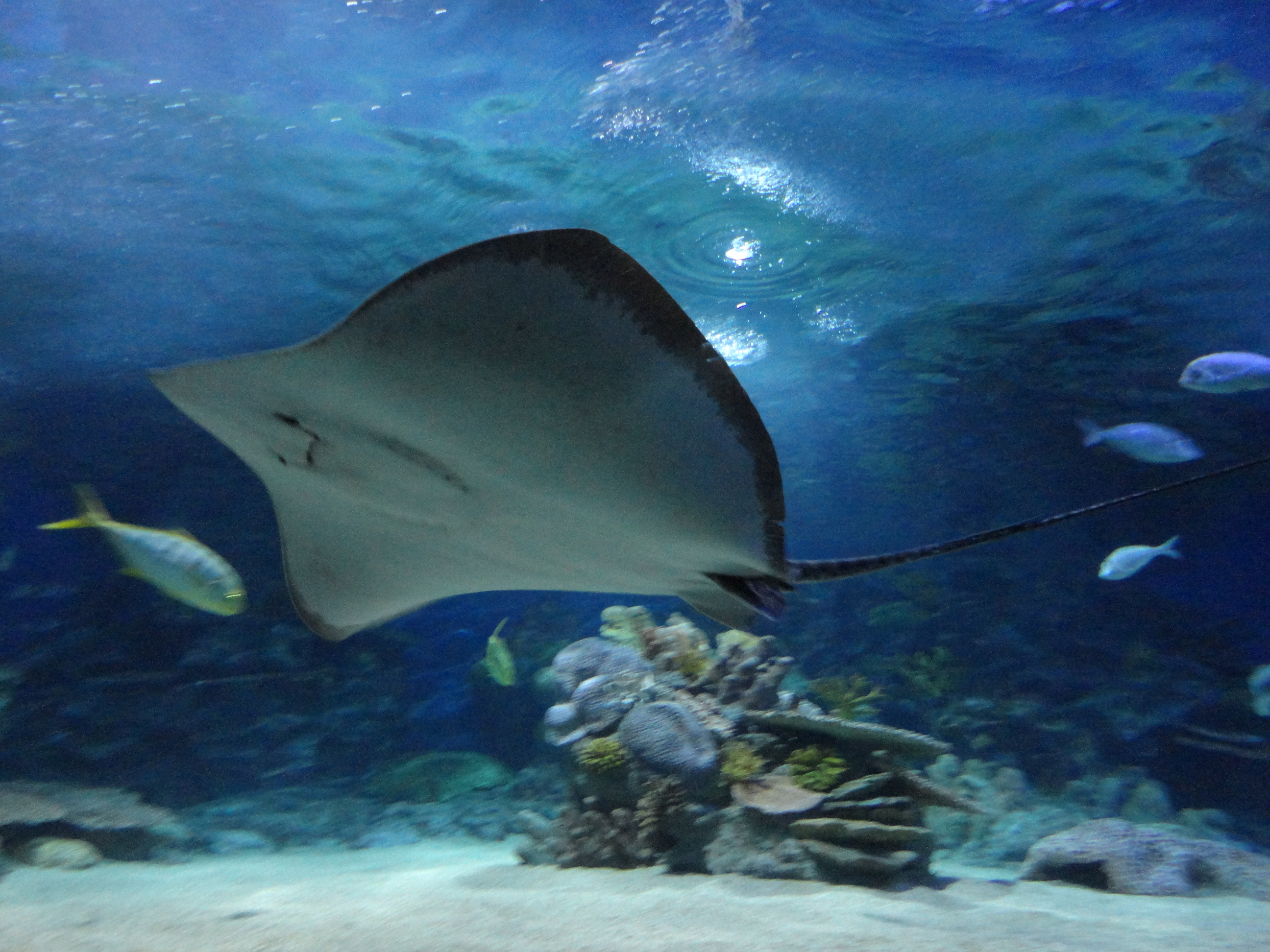 Turkuazoo is one of the biggest aquariums in Europe and is located in Istanbul, Turkey. There you can enjoy the world of fishes, rays, catfishes, sharks and more. It is also a perfect place to relax or for meditation. For interesting travel tips visit